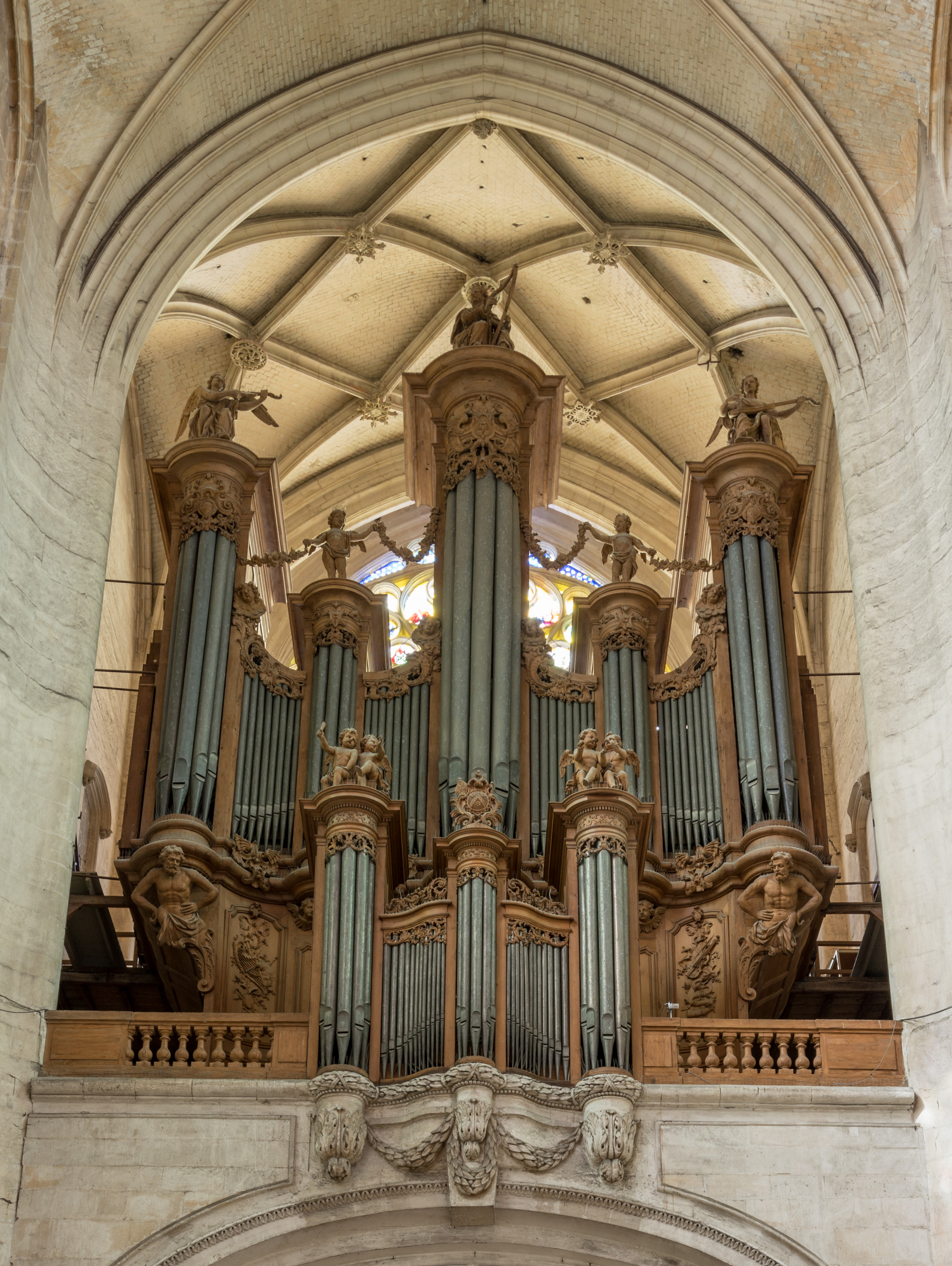 The organ of Troyes Cathedral